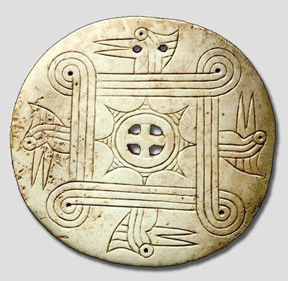 A Mississippian culture Cox style shell gorget with a cross in circle solar motif and four woodpecker heads.